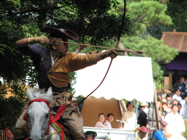 It is a kind of Japanese archery in ancient Japan. This was the festival at Tsurugaoka Hachimangu in Kamakura, Kanagawa.